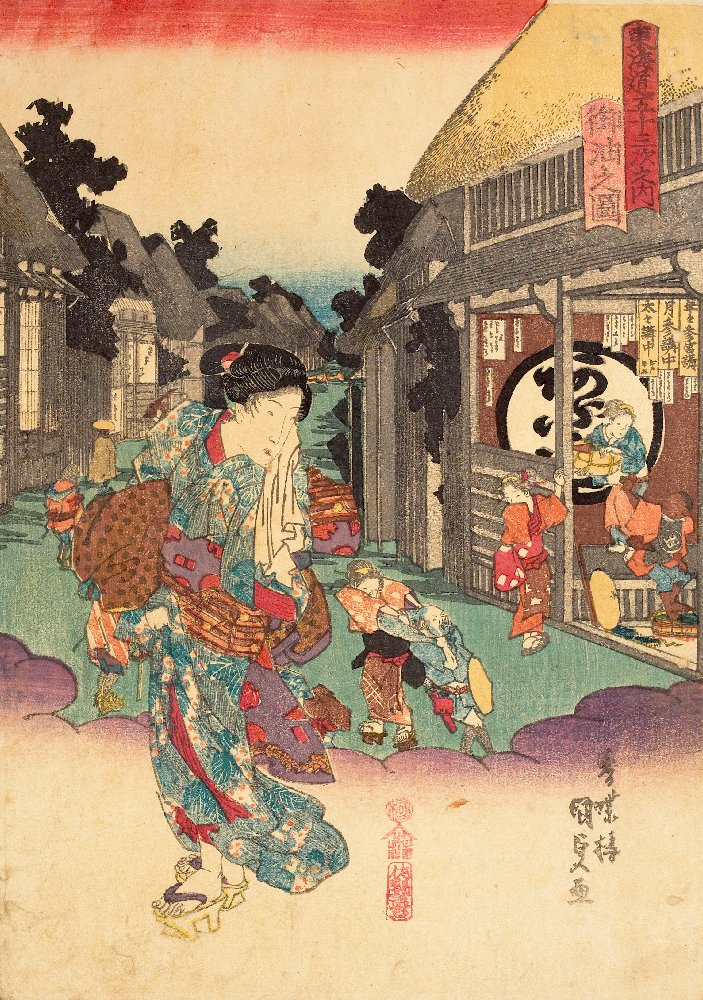 Goyu from the series Fifty-Three Stations of the Tōkaidō with Beauties, 1848, Honolulu Museum of Art